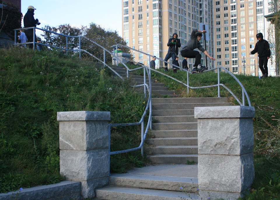 Aggressive Inline Skater Soul Grinds a rail in Cambridge, Massachusetts